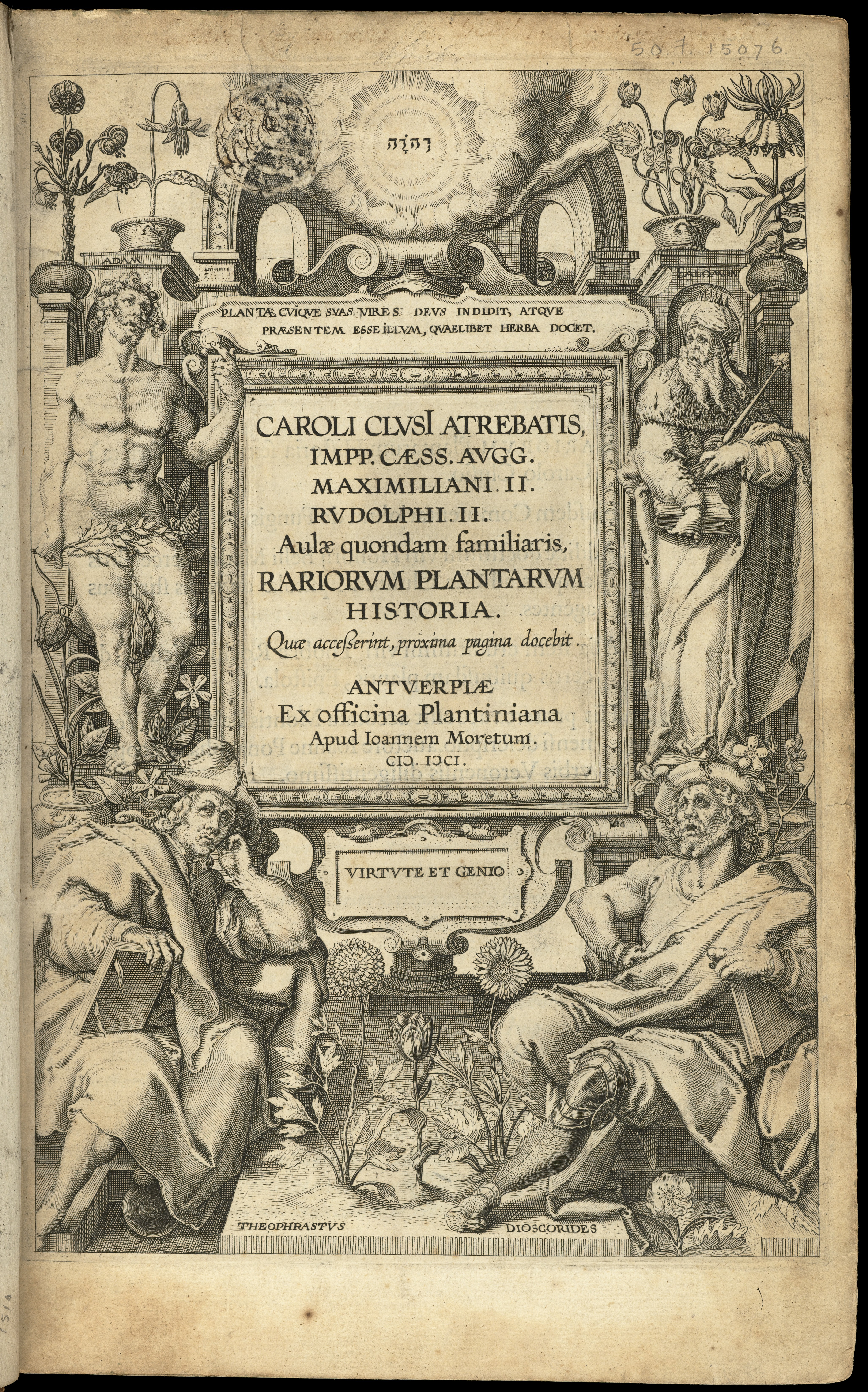 Title page, Rariorvm plantarvm historia. Rare Books Keywords: Botany